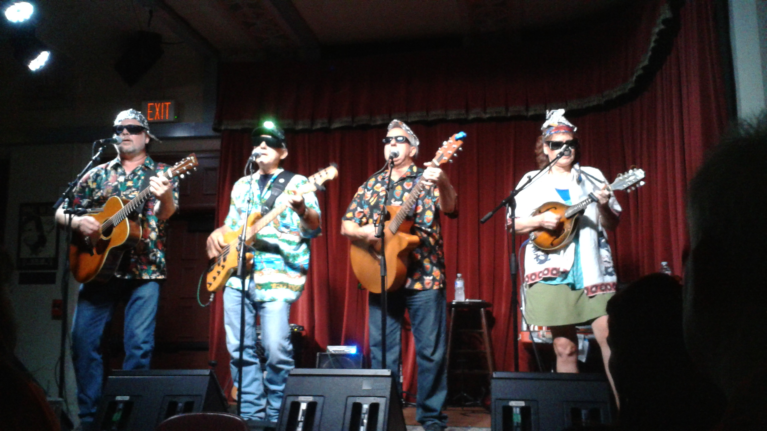 The Austin Lounge Lizards perform the song "Black Helicopters" at the Cactus Cafe on June 14, 2014.